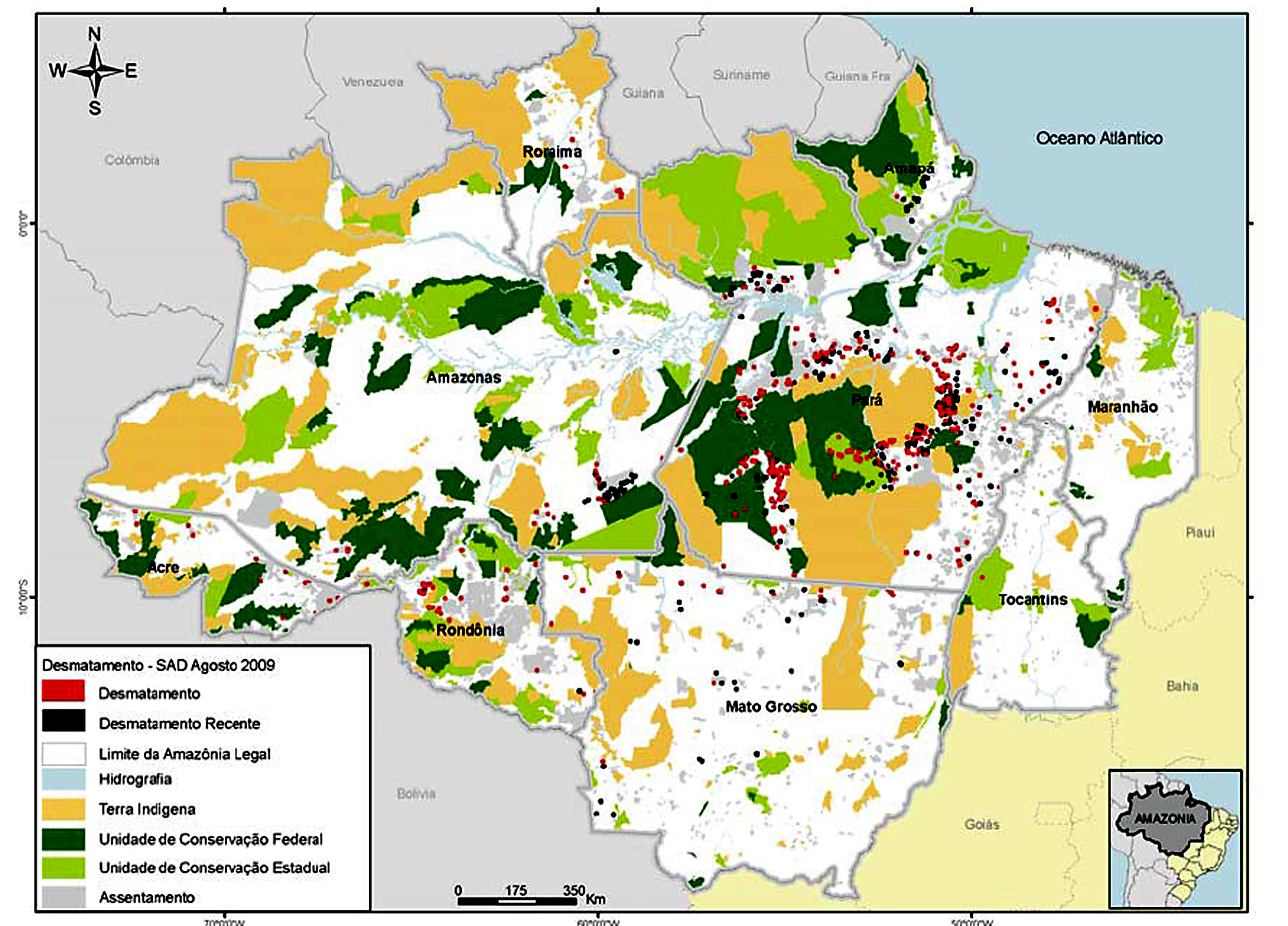 Brasilian Amazon deforestation map in August, 2009 (in Portuguese).